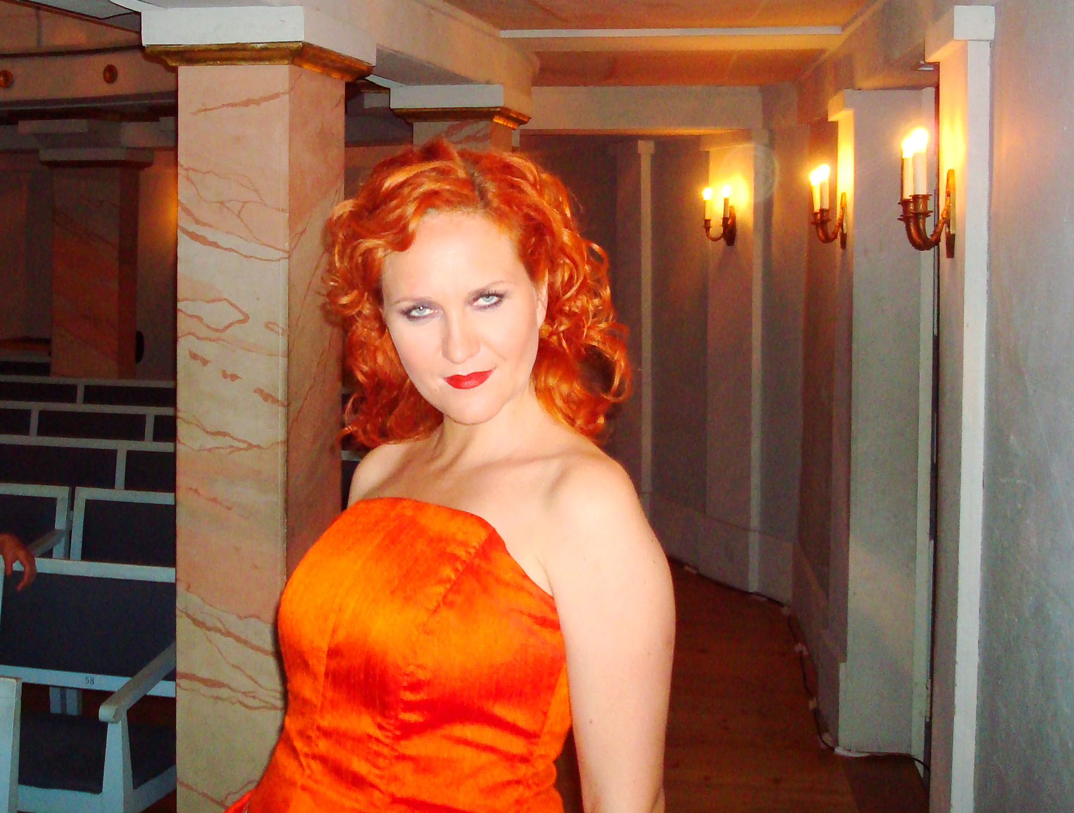 German soprano Simone Kermes photographed at the historical theatre in Ludwigsburg, Germany.